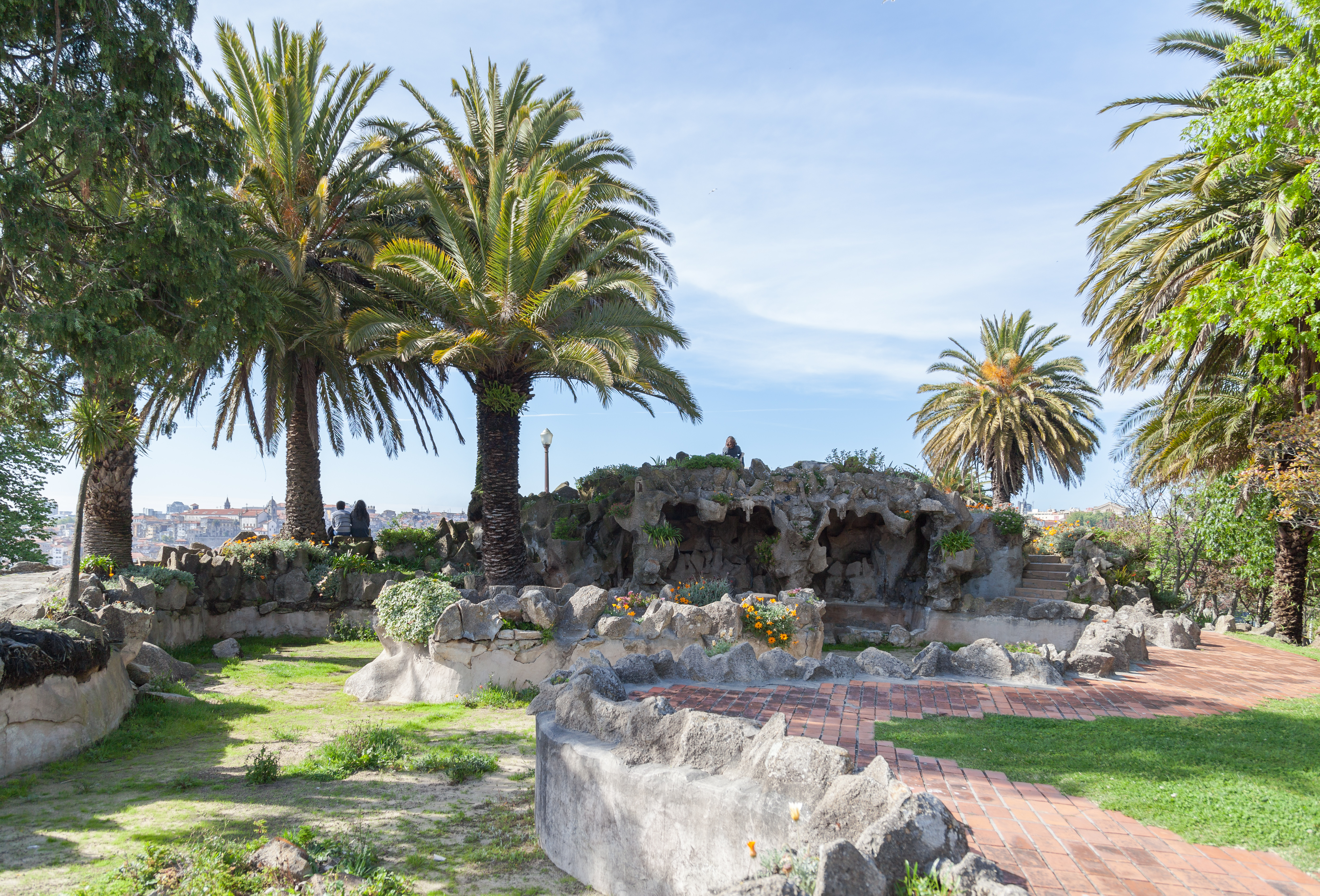 Jardim do Morro, Porto, Portugal